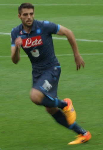 David López playing for Napoli in 2015.